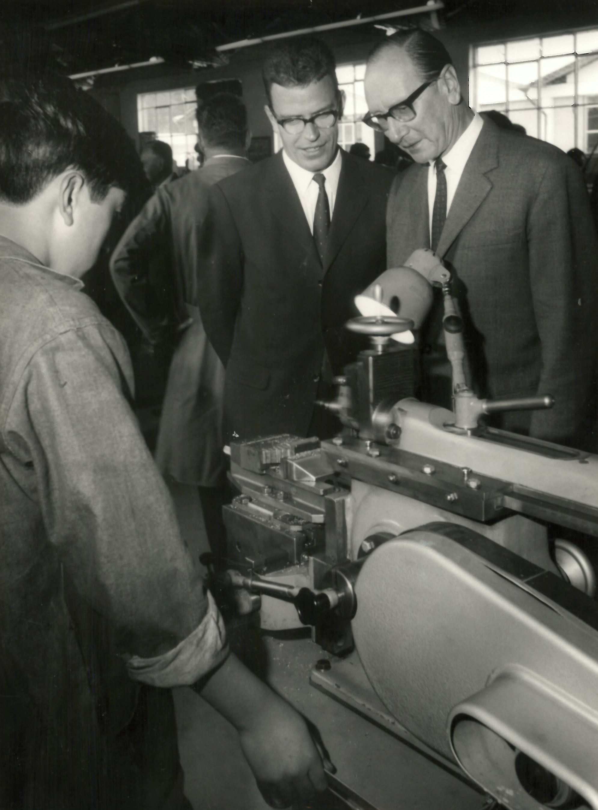 Historical file of the secap in 1977